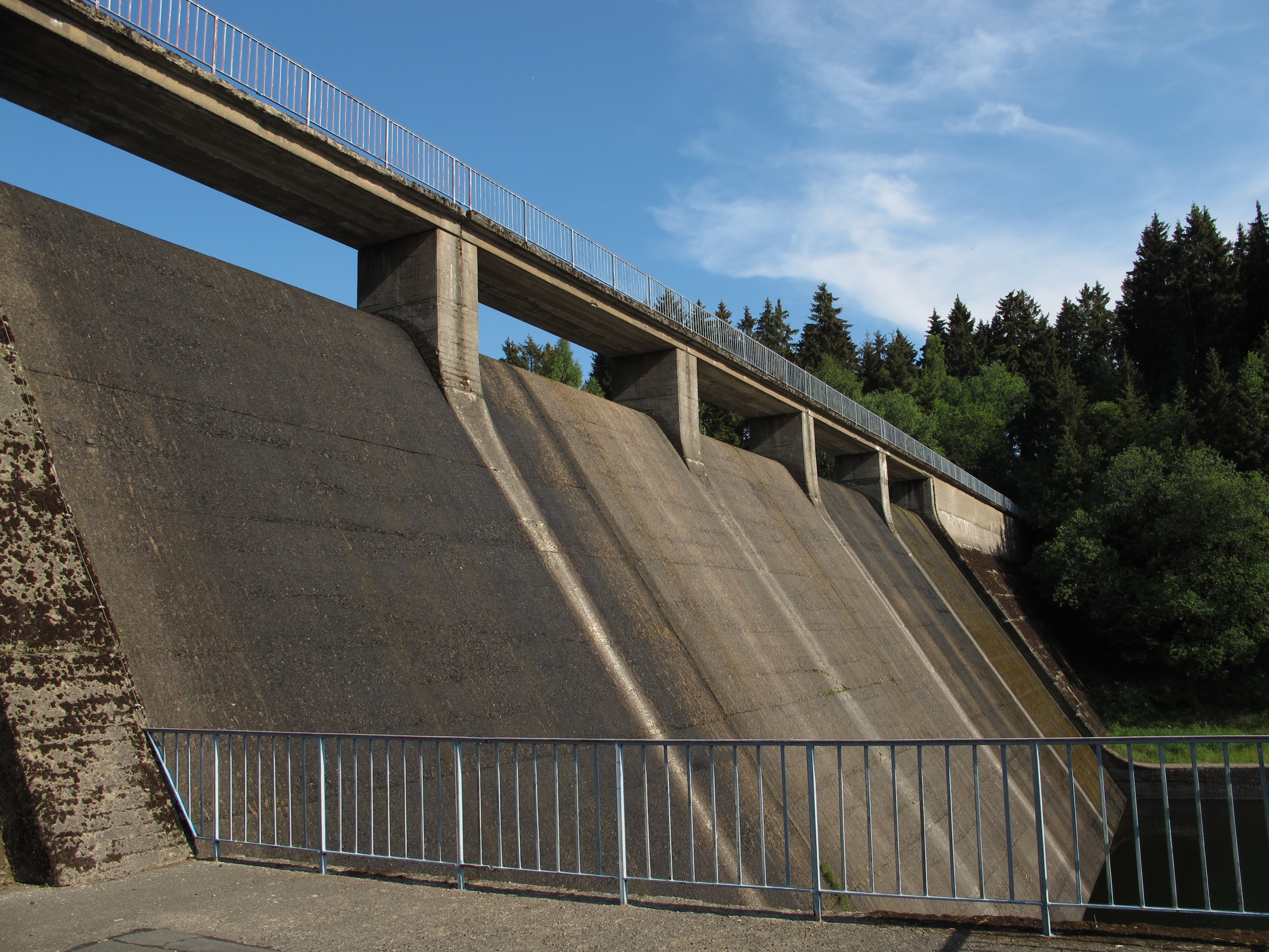 Hasselvorsperre in the mountain Harz